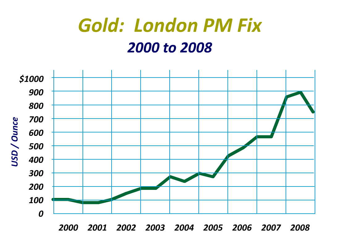 A graph showing the historical price of gold from 2000 through 12/19/2008. The graph is highly generalized from data garnered at